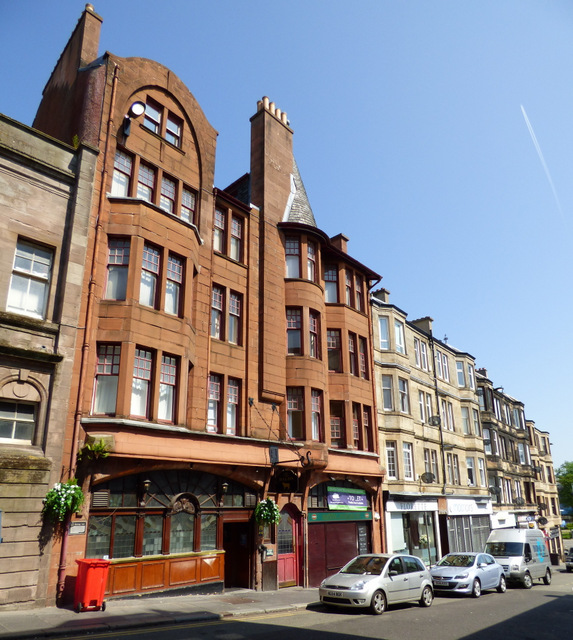 The Bull Inn